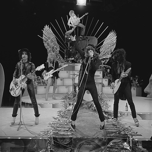 New York Dolls in AVRO's TopPop (Dutch television show) in 1973